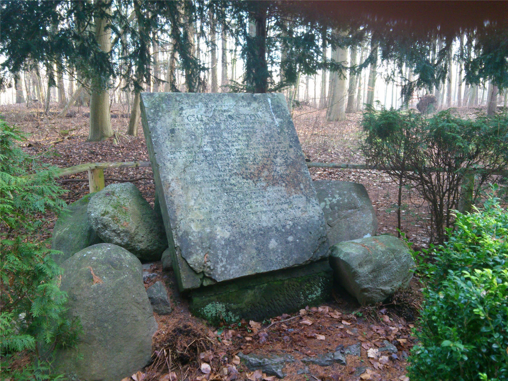 Gravestone in Folehaveskoven (Forest north of Copenhagen, Denmark) of chief forester Christoph Hartwig von Linstow, dead 1823 in Hørsholm, Denmark